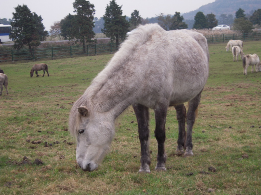 Jeju horse (feed on grass)